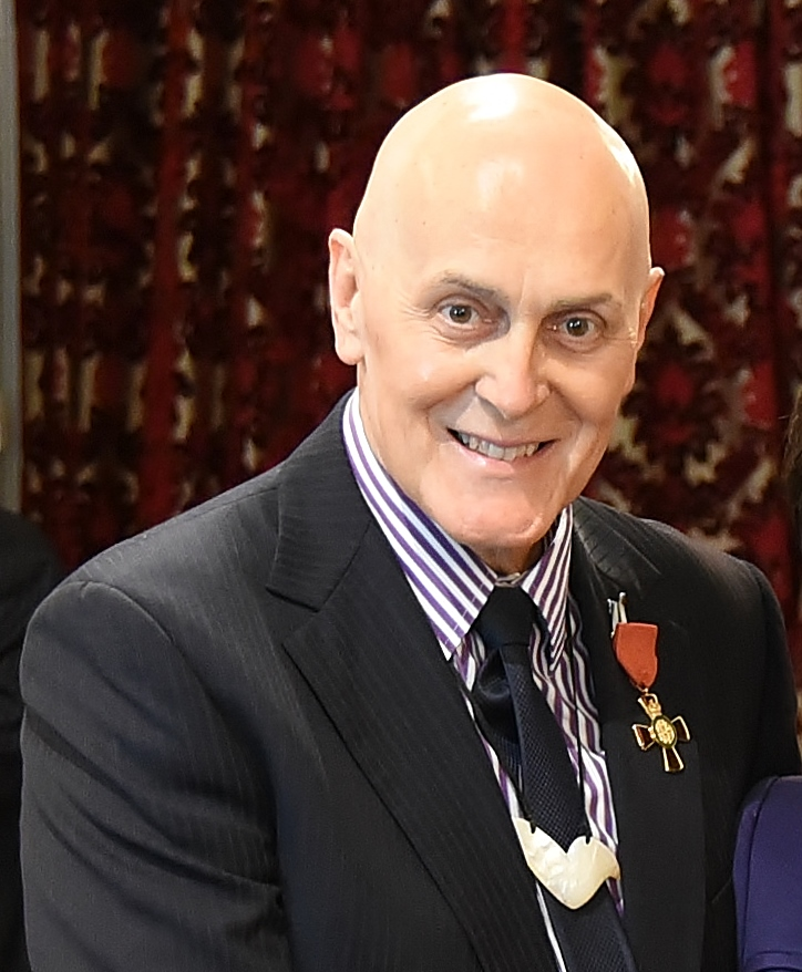 Steve Sumner, after his investiture as ONZM, for services to football, by the governor-general, Dame Patsy Reddy, on 18 October 2016